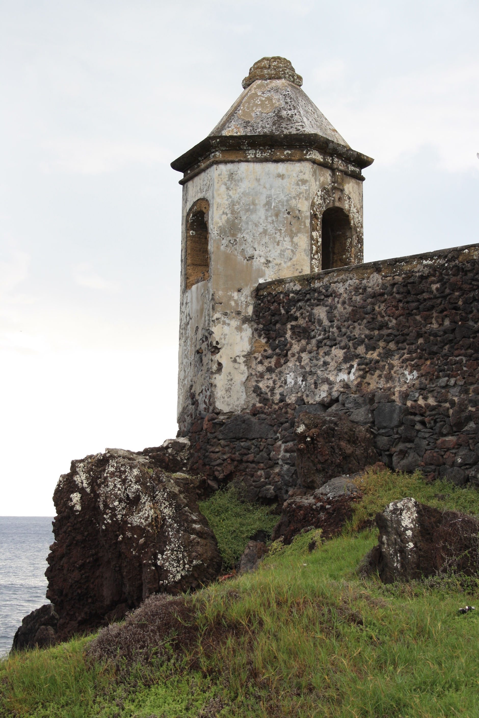 This building is classified as Imóvel de Interesse Público. This file was uploaded for Wiki Loves Monuments in Portugal with the unique identifier 98020015.